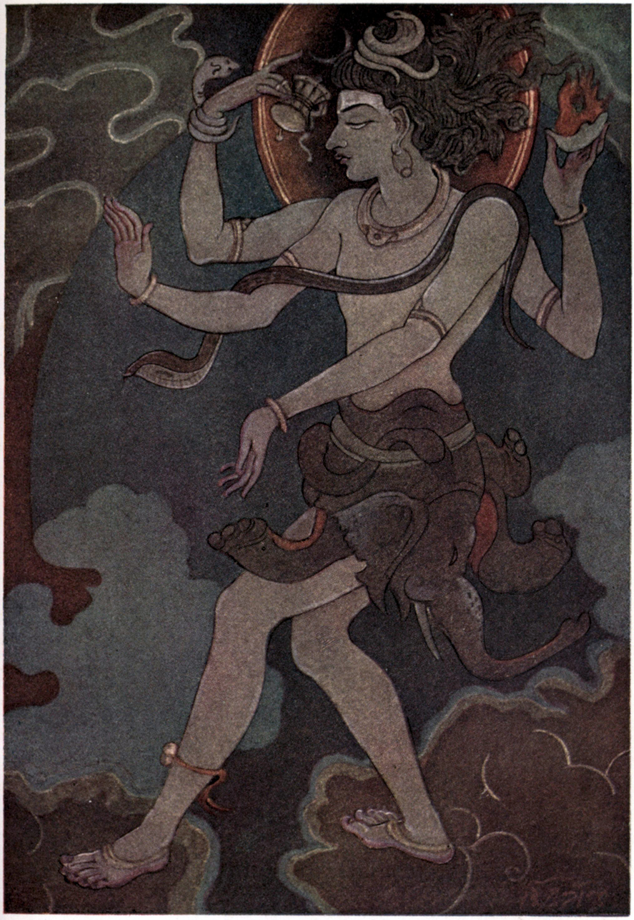 Myths of the Hindus & Buddhists (1914) Author: Nivedita, Sister, 1867-1911; Coomaraswamy, Ananda Kentish, 1877-1947 Subject: Mythology, Hindu; Mythology, Indic; Buddha and Buddhism Publisher: London Harrap Possible copyright status: NOT_IN_COPYRIGHT Language: English Call number: AAV-0085 Digitizing sponsor: MSN Book contributor: Robarts - University of Toronto Collection: robarts; toronto Full catalog record: MARCXML [Open Library icon]This book has an editable web page on Open Library. Be the first to write a review Downloaded 855 times Reviews Selected metadata Identifier: mythsofthehindus00niveuoft Copyright-evidence-operator: University of Toronto scanning center Copyright-region: US Copyright-evidence: Evidence reported by University of Toronto scanning center for item mythsofthehindus00niveuoft on May 12, 2006; no visible notice of copyright and date found; stated date is 1914; not published by the US government; Have not checked for notice of renewal in the Copyright renewal records. Copyright-evidence-date: 2006-05-12 20:39:44 Scanningcenter: UofT Operator: scanner-joanna-woodcock Mediatype: texts Scanner: uoft3 Scandate: 20060517130853 Imagecount: 518 Sponsordate: 20060531 Filesxml: Thu Mar 18 6:17:31 UTC 2010 Ppi: 500 Identifier-access: Identifier-ark: ark:/13960/t50g4p70x